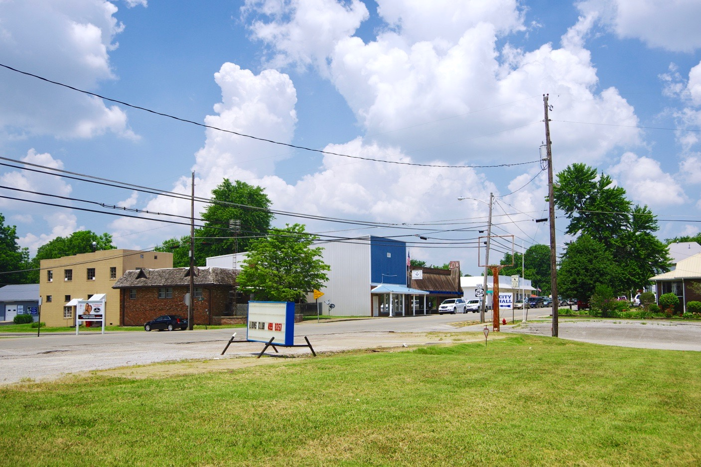 Businesses along Main Street (KY 81) in Sacramento, Kentucky, United States.